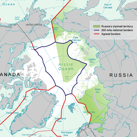 temporary file